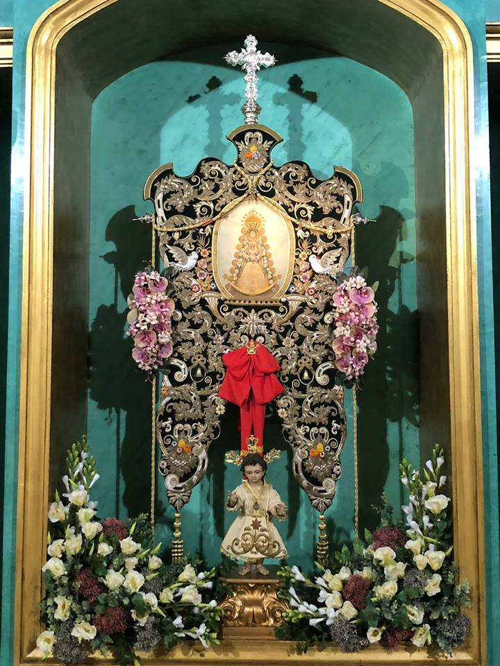 Simpecado de la Hermandad del Rocío de Cerro del Águila. Iglesia de Nuestra Señora de los Dolores, Sevilla.